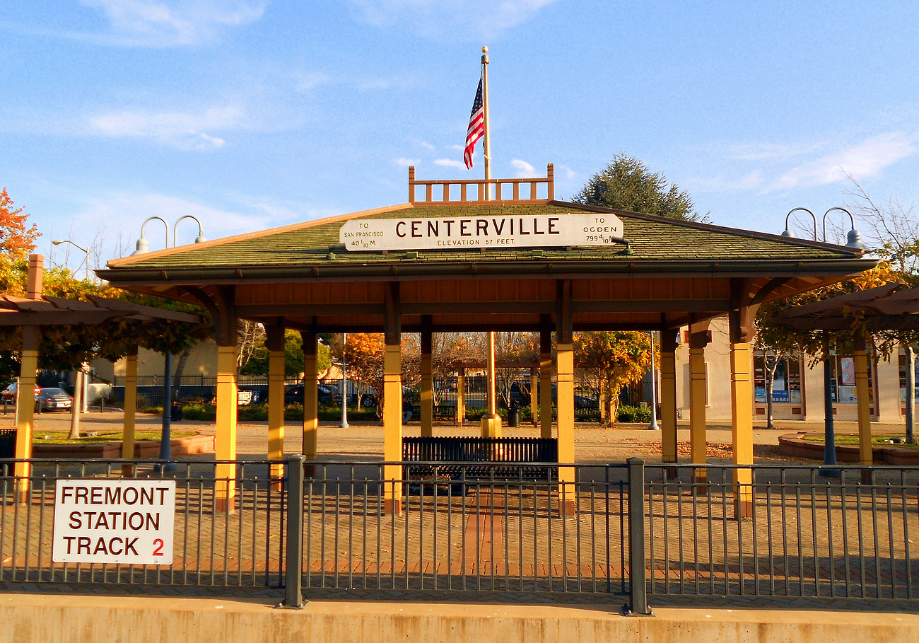 The shelter in the eastside platform of Centerville SP depot